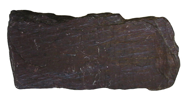 Photographer: Siim Sepp Date of the creation: 20th April, 2005.